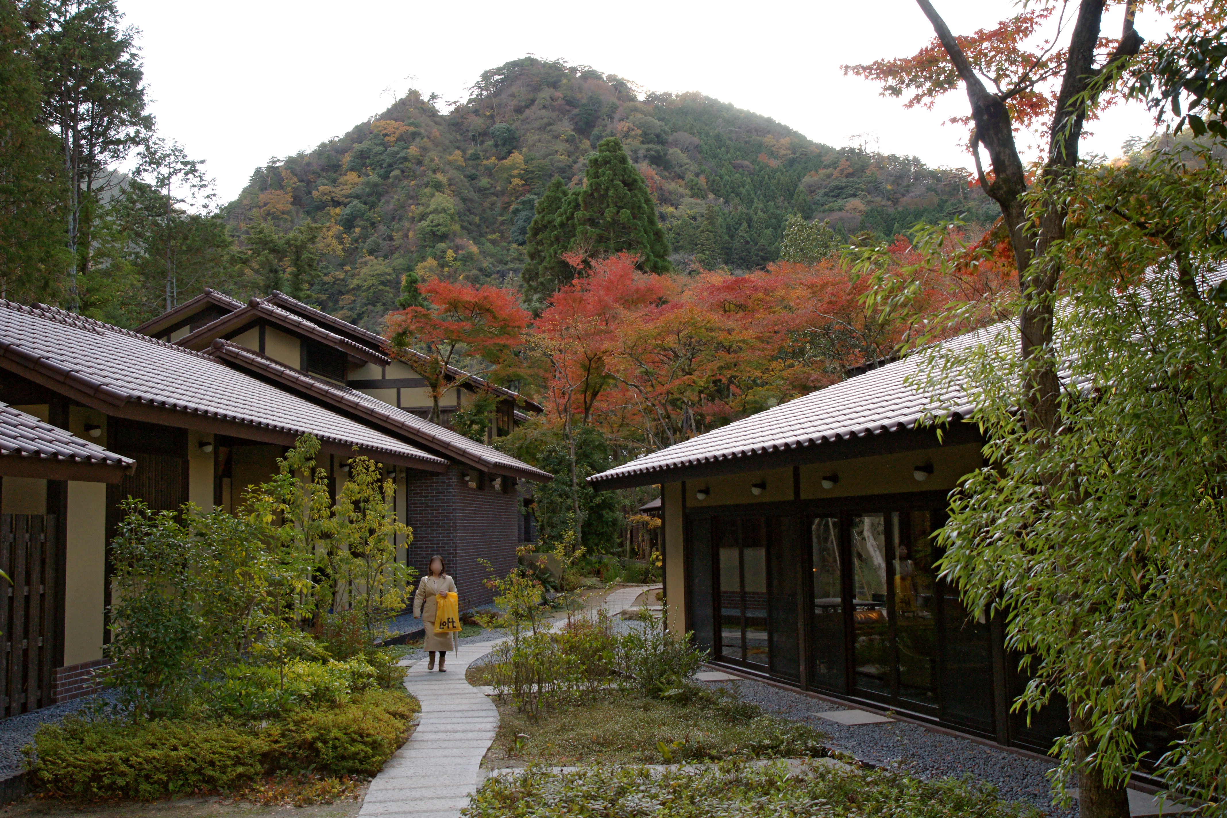 Gosho bessho in Arima onsen, Kobe, Hyogo prefecture, Japan